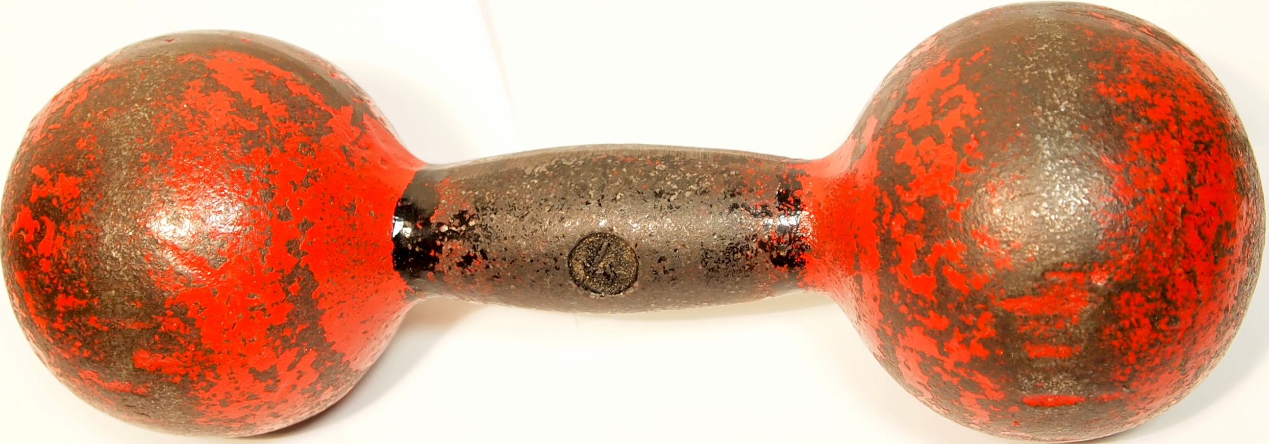 Red dumbbell of mass 4 kg.